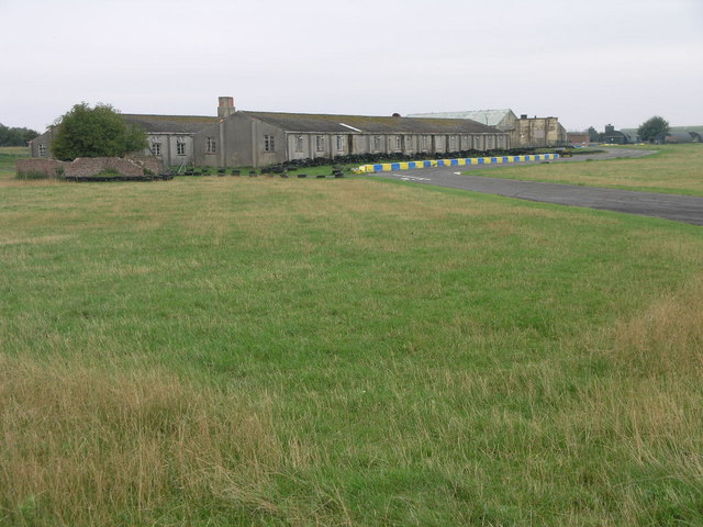 Strubby Airfield. These building appear to date from the 1940s when Strubby was an operational RAF base.